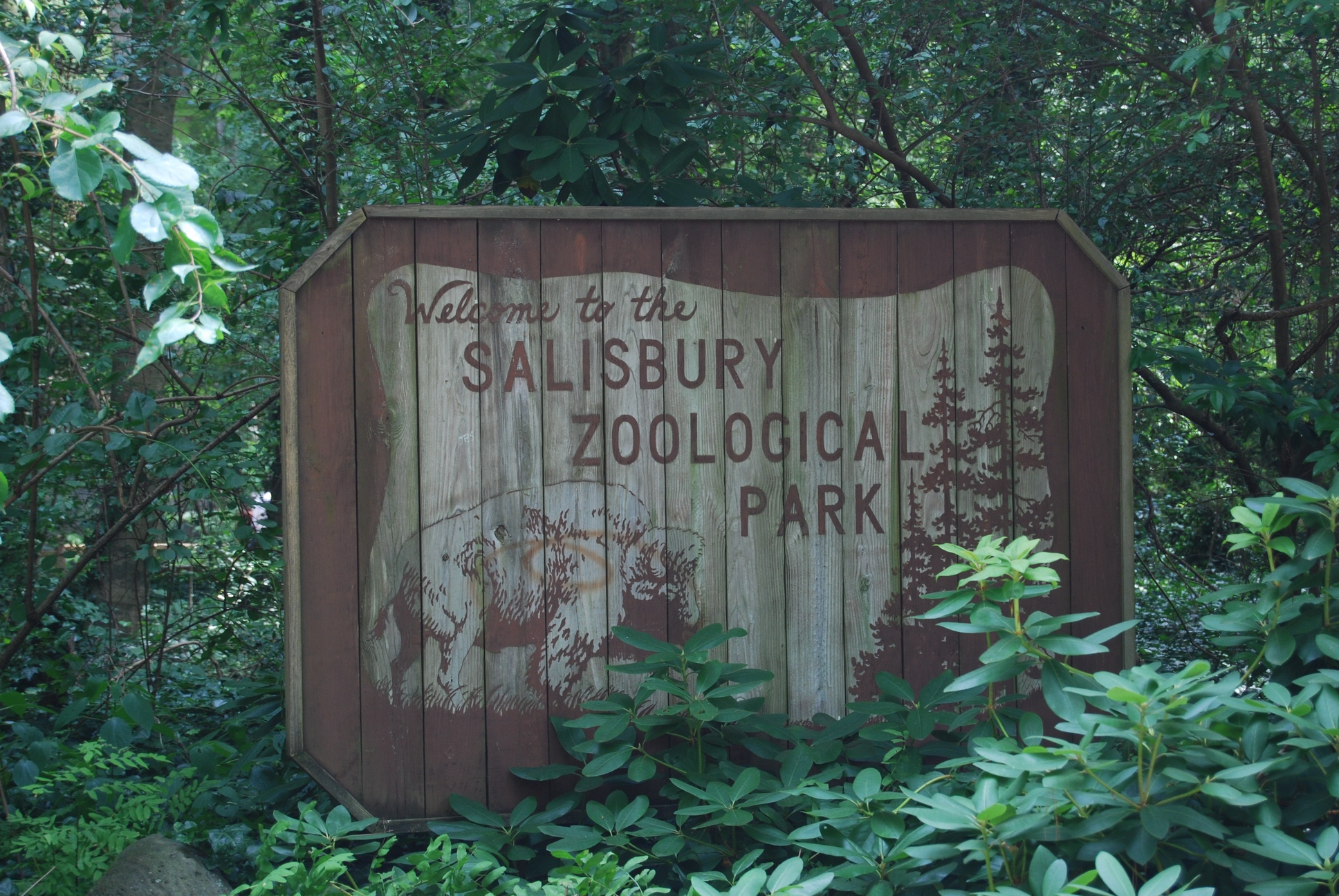 Salisbury Zoo